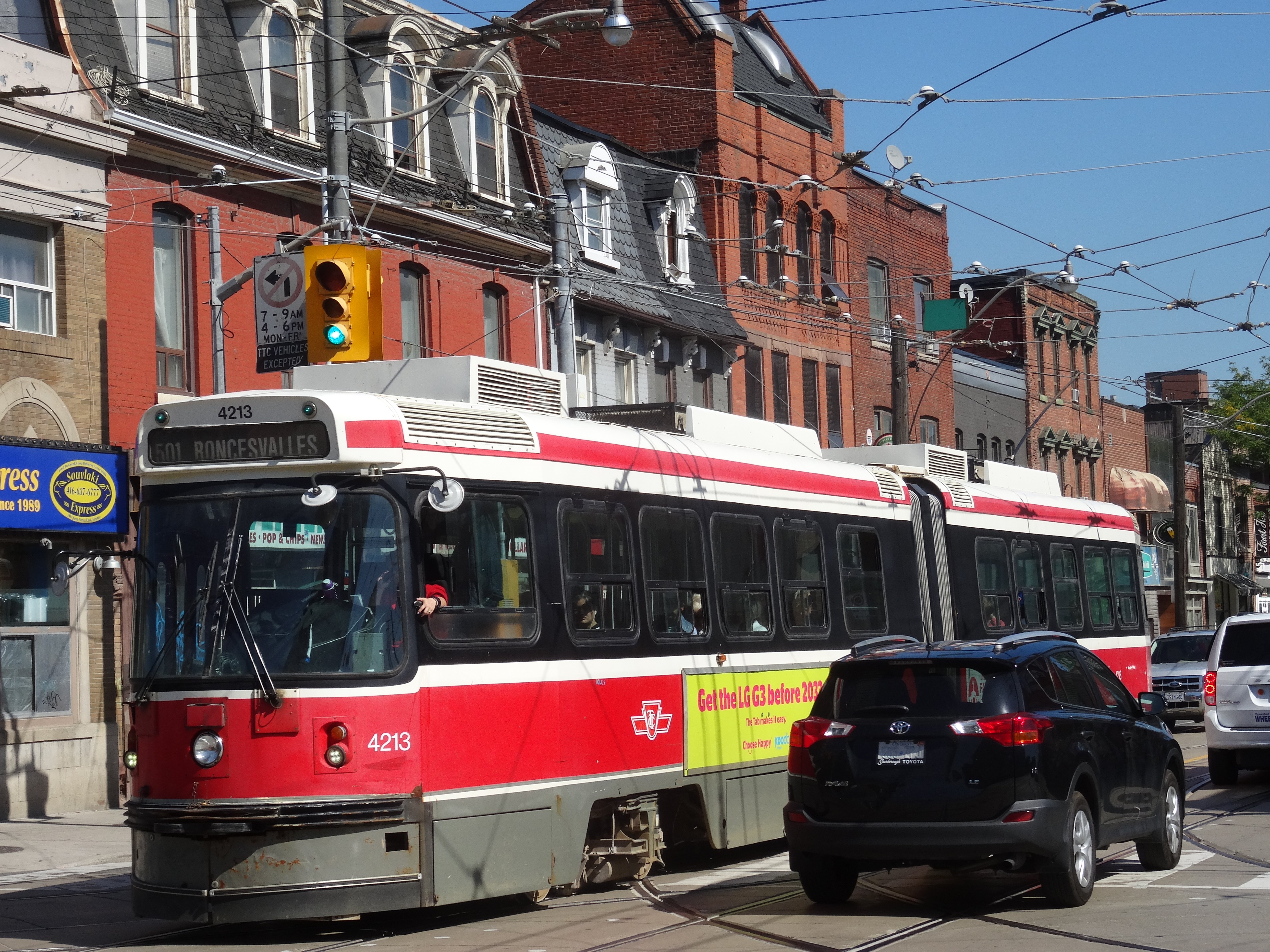 Streetcars on Queen Street, 2015 09 22 (17).JPG